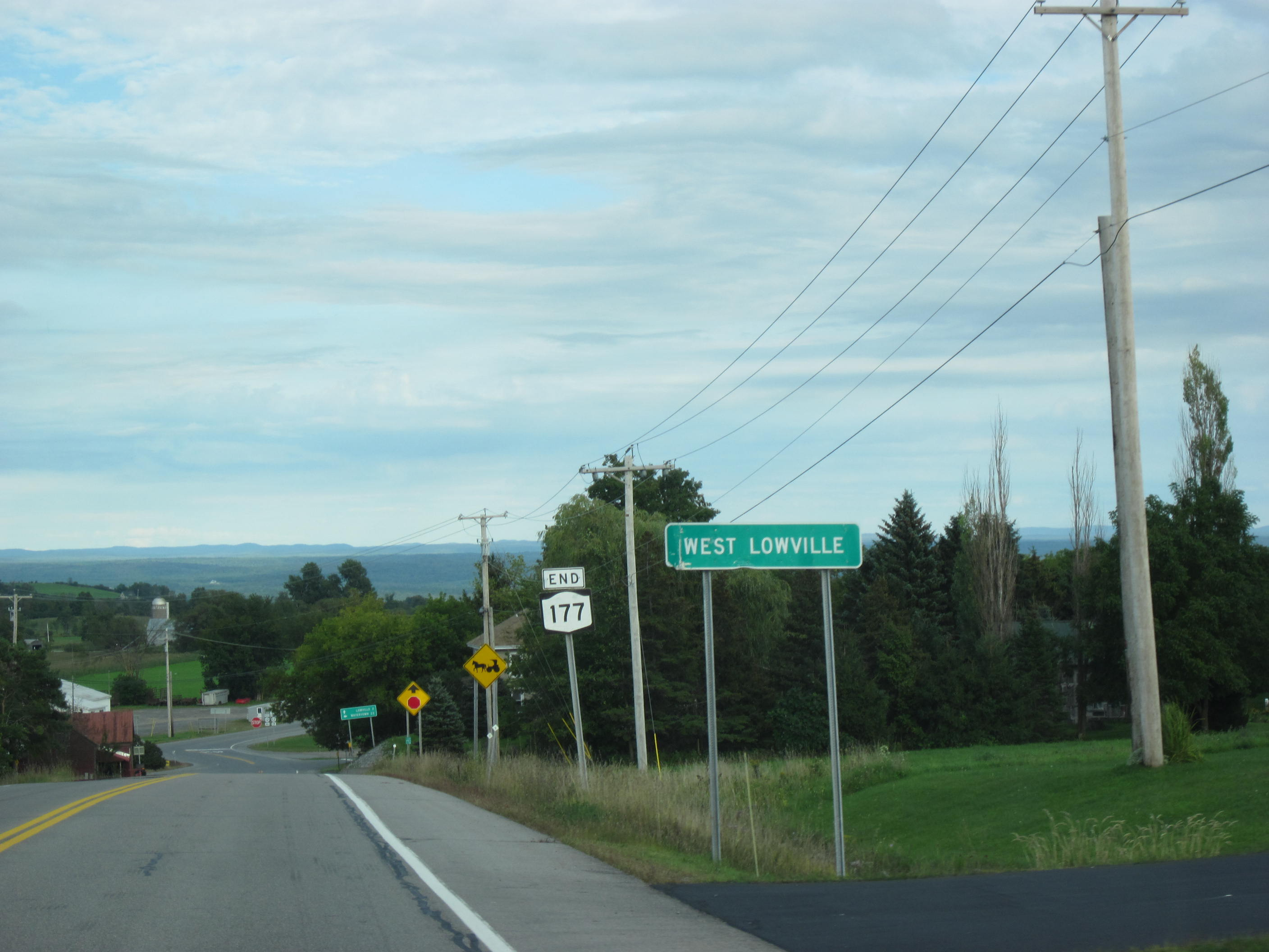 New York State Route 177 entering the hamlet of West Lowville, and approaching its terminus at New York State Route 12. The Adirondack Mountains form the landscape in the distance.